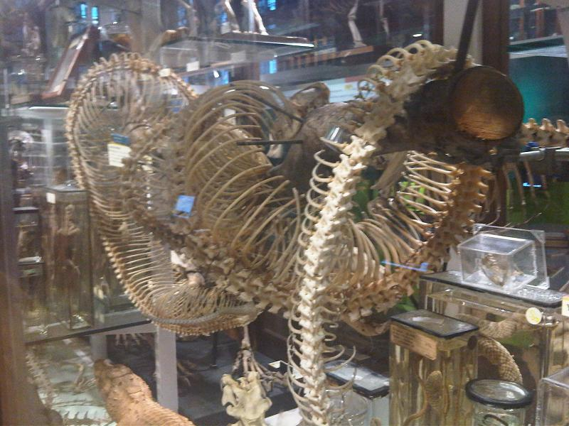 Green Anaconda (Eunectes murinus) skeleton in Grant Museum of Zoology, London, England.